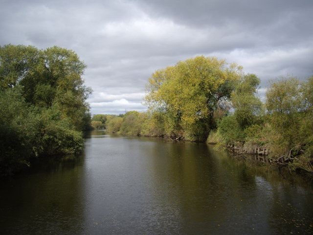 River Ouse by Clifton Ings